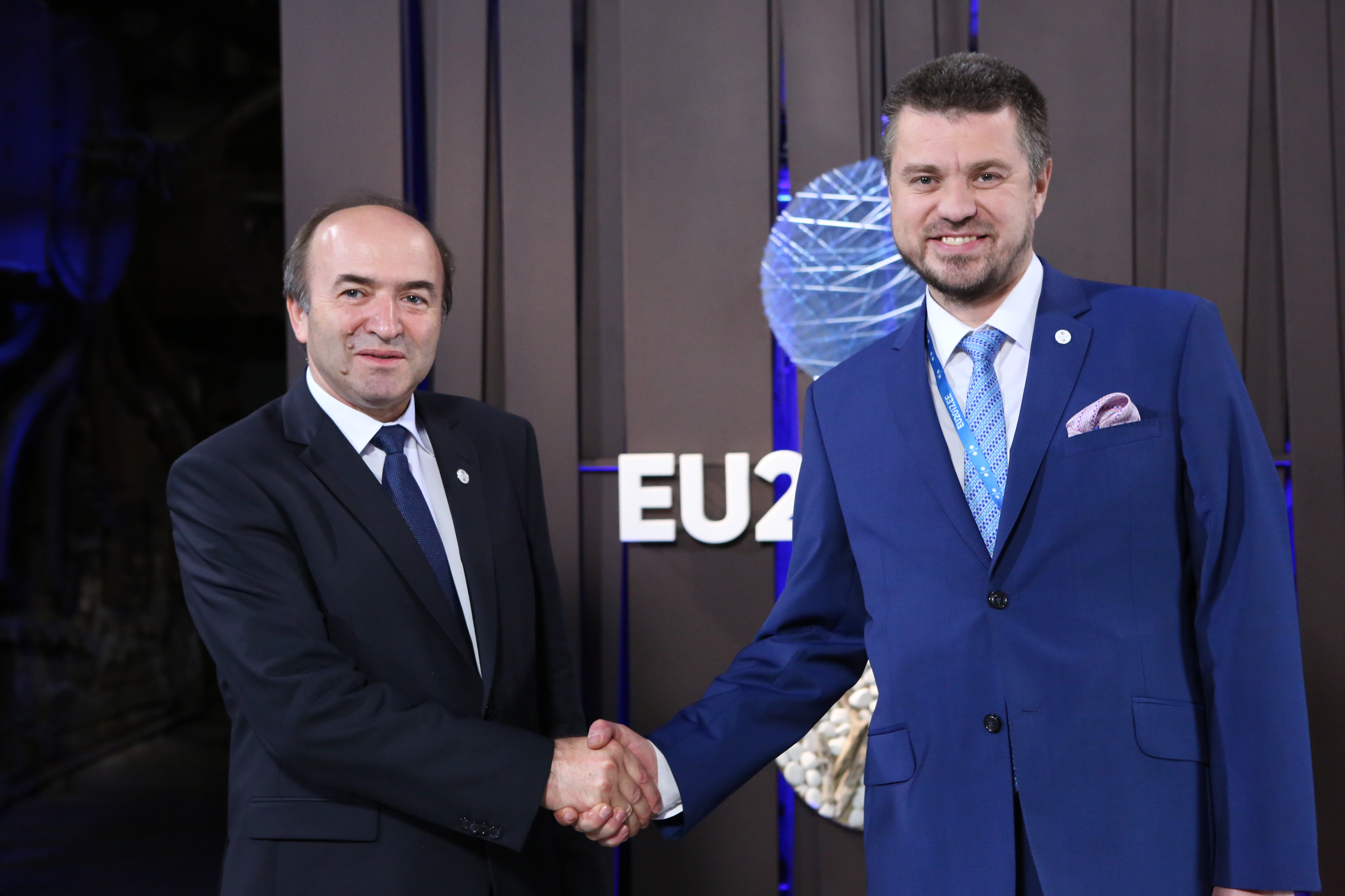 (l-r) Tudorel Toader, Minister, Ministry of Justice, Romania; Urmas Reinsalu, Minister, Ministry of Justice, Estonia